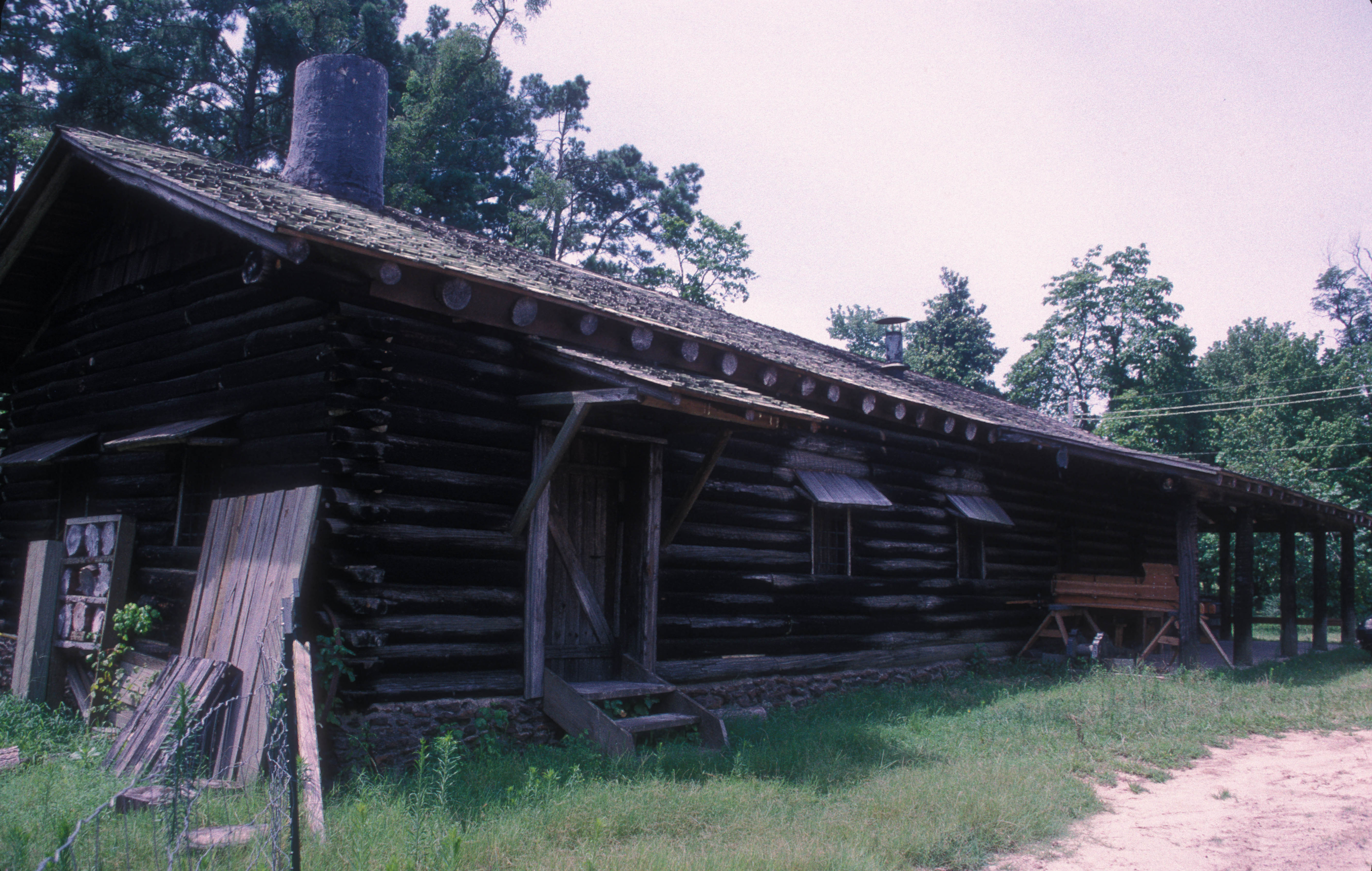 RECONSTRUCTION OF THE HOUSE WHERE JAMES BLACK MADE THE FIRST BOWIE KNIFE FOR JAMES BOWIE